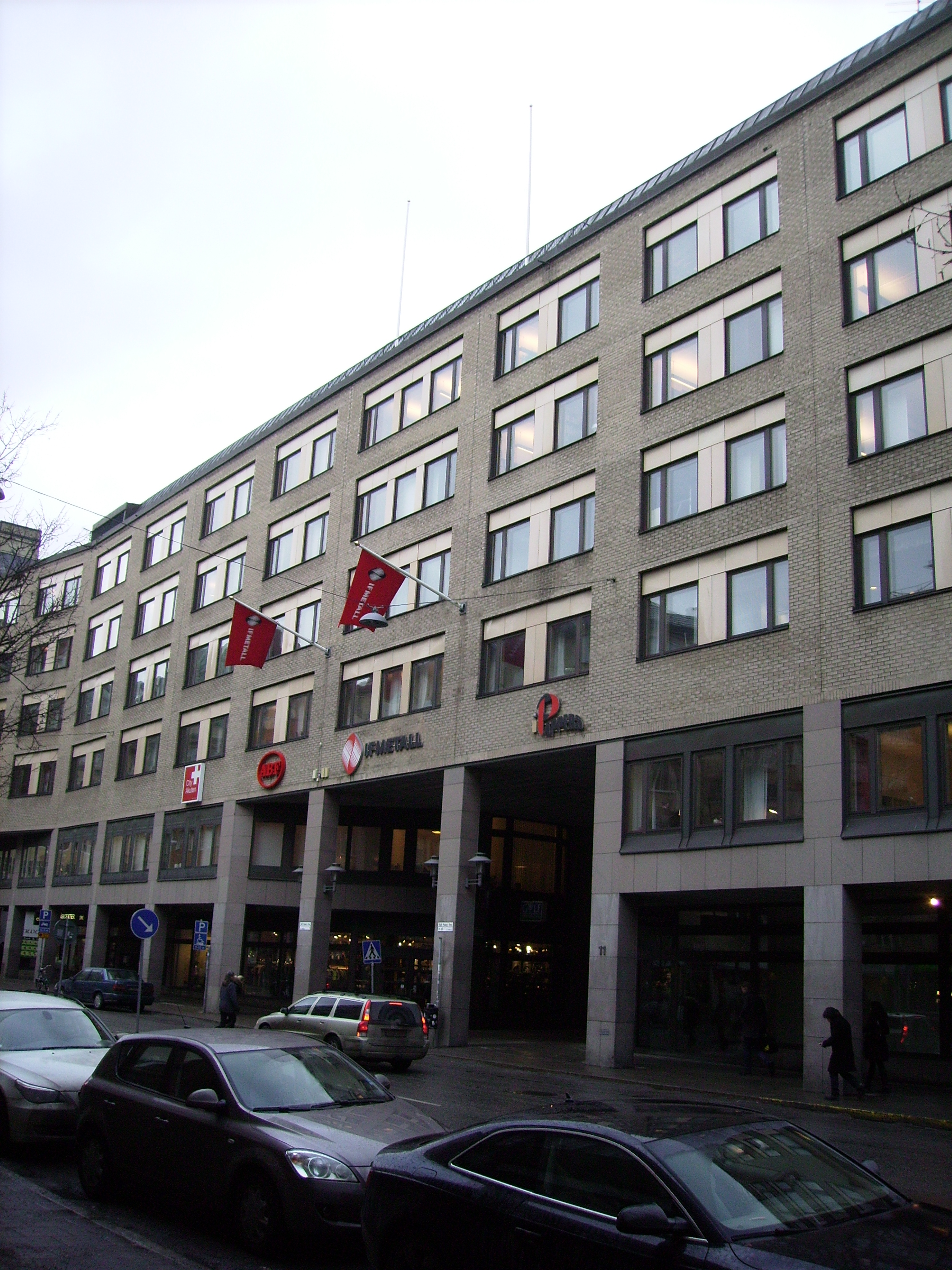 Picture of Pappers on Olof Palmes gata in Stockholm. Built 1979-1983.